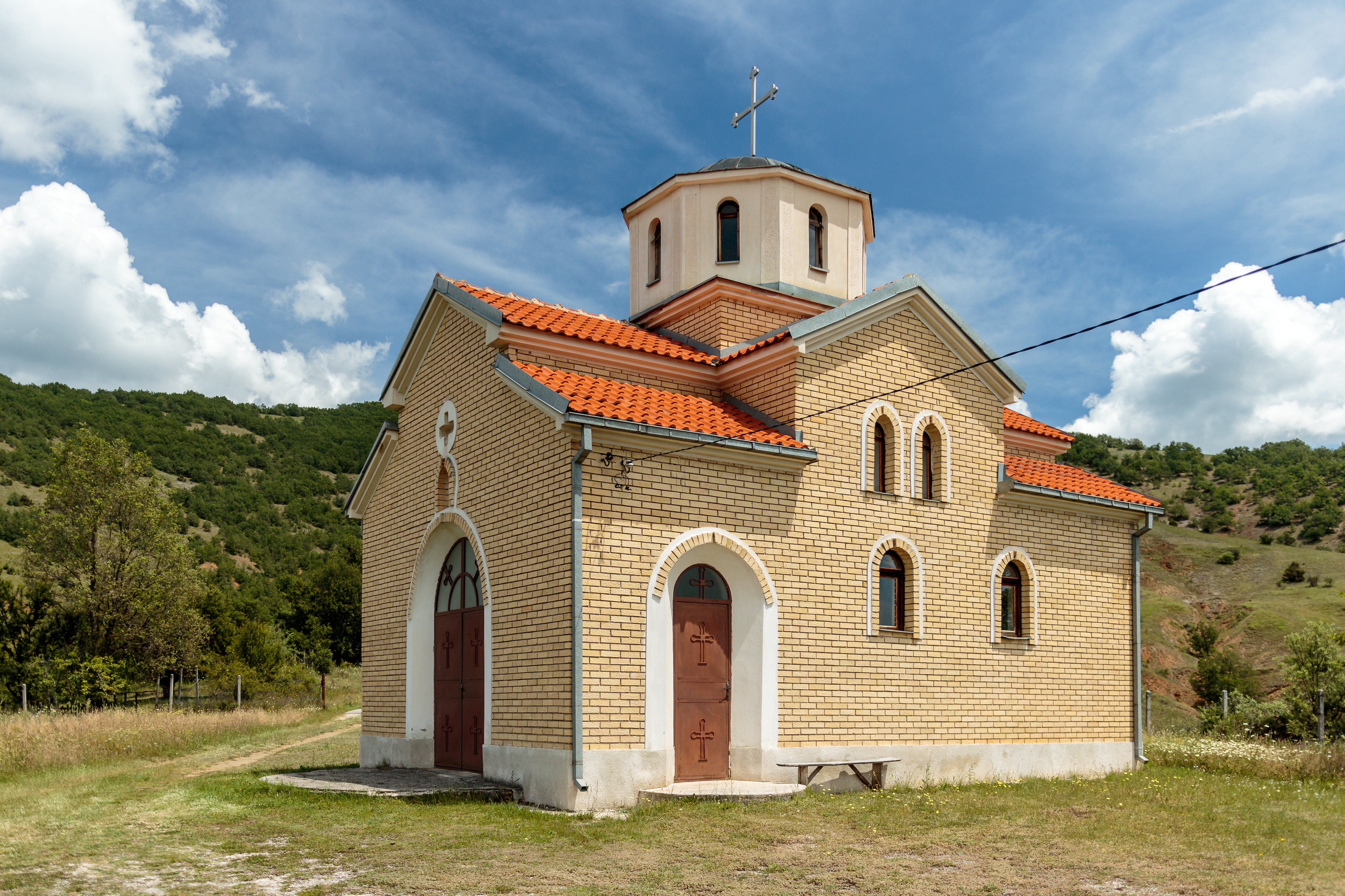 View of the Dormition of the Theotokos Church in the village Pribilci